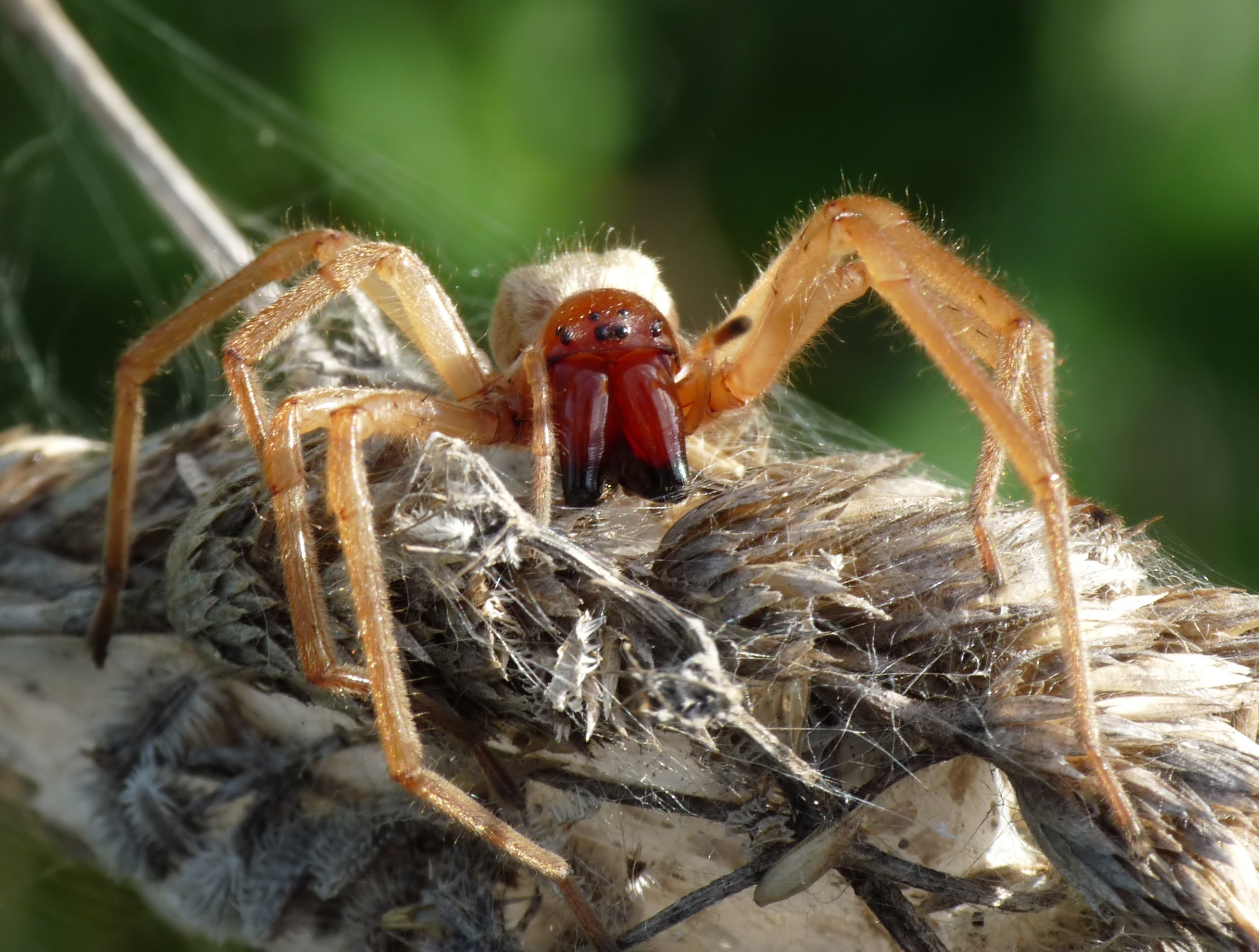 Spider Cheiracanthium punctorium, near Livorno, Tuscany, Italy